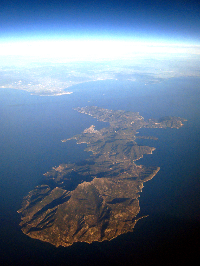 Aerial view of the island of Elba